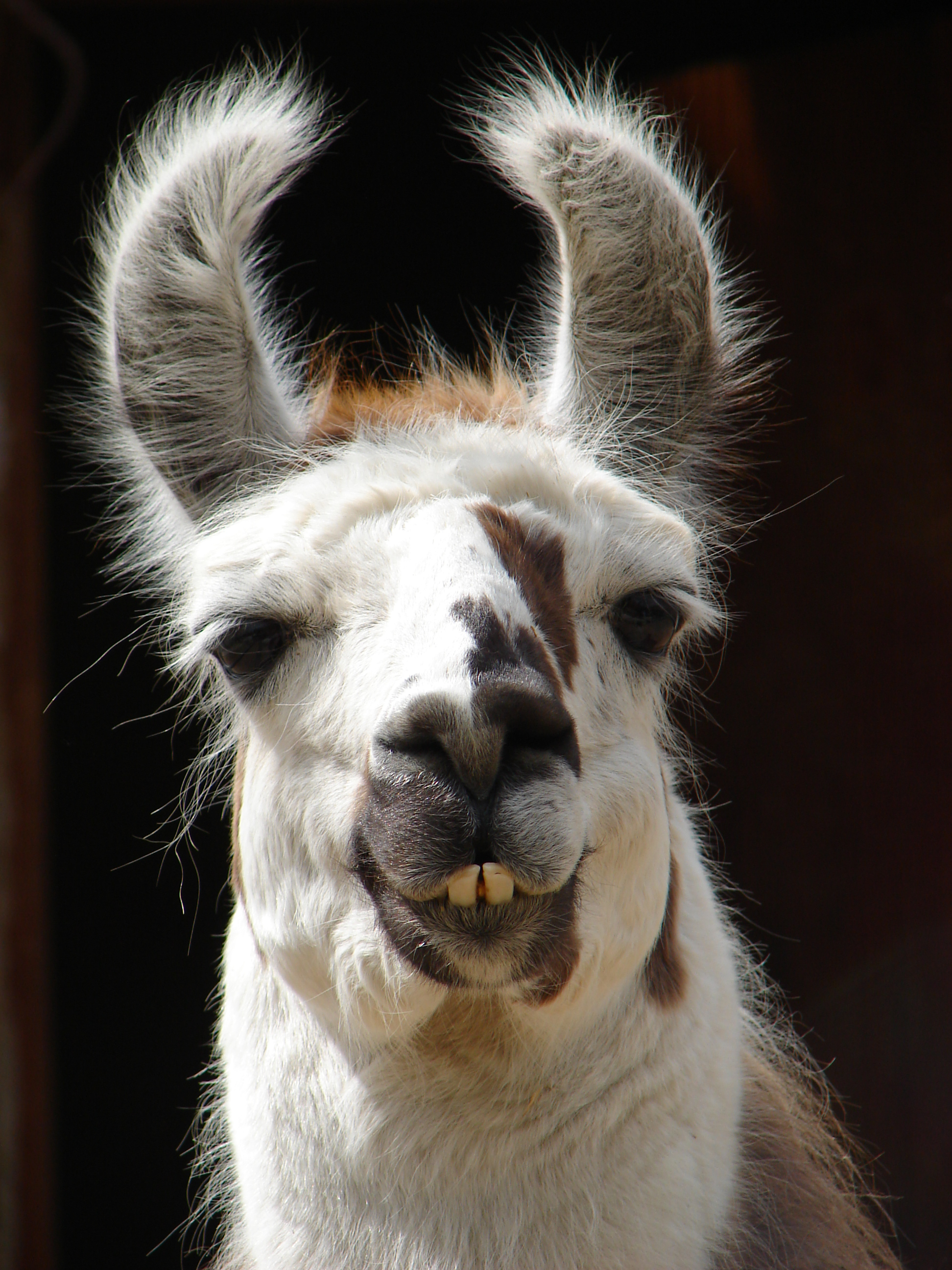 Lama glama portrait at Boğaziçi Zoo